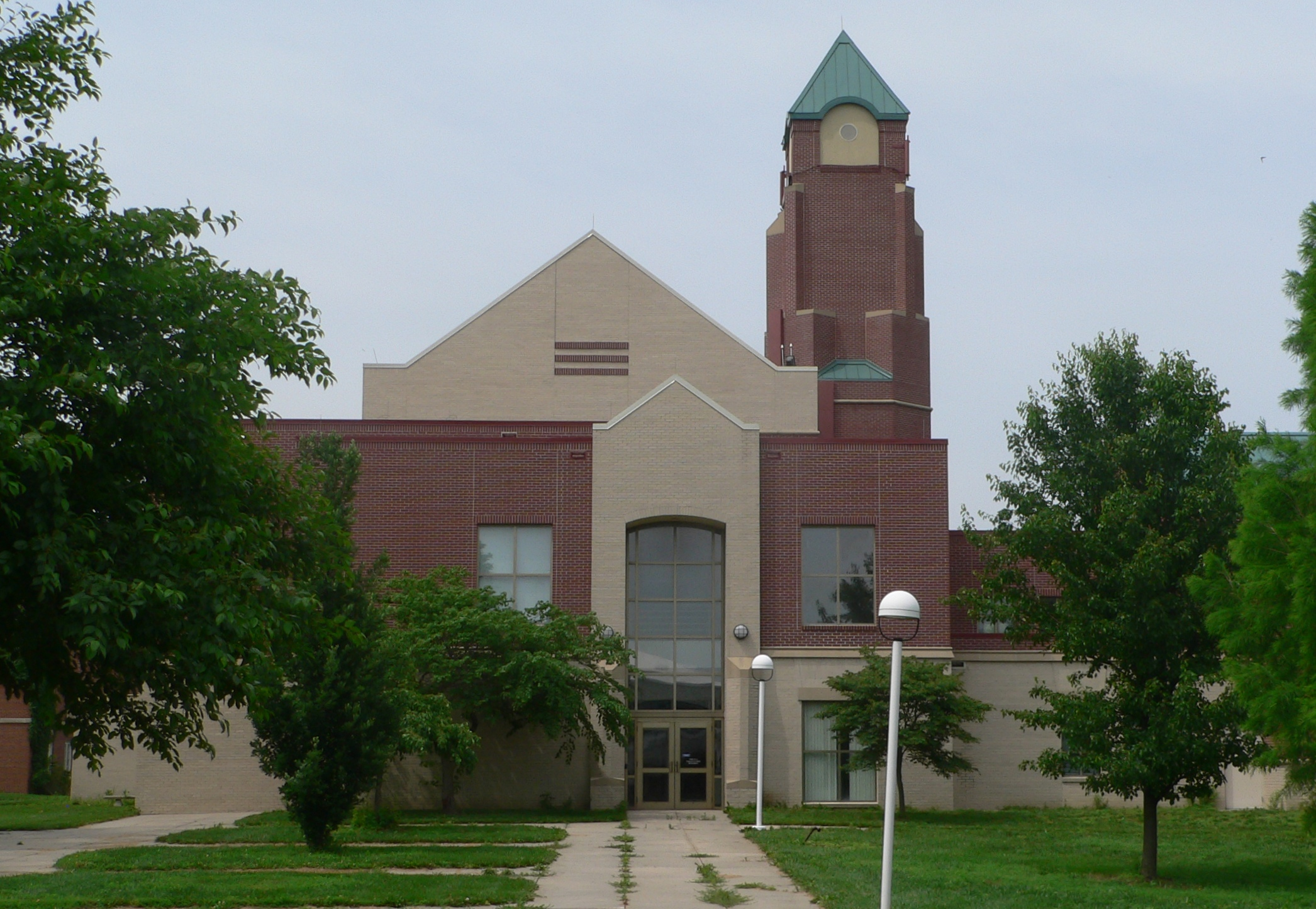 Trinity Chapel on campus of Dana College in Blair, Nebraska; seen from the south.